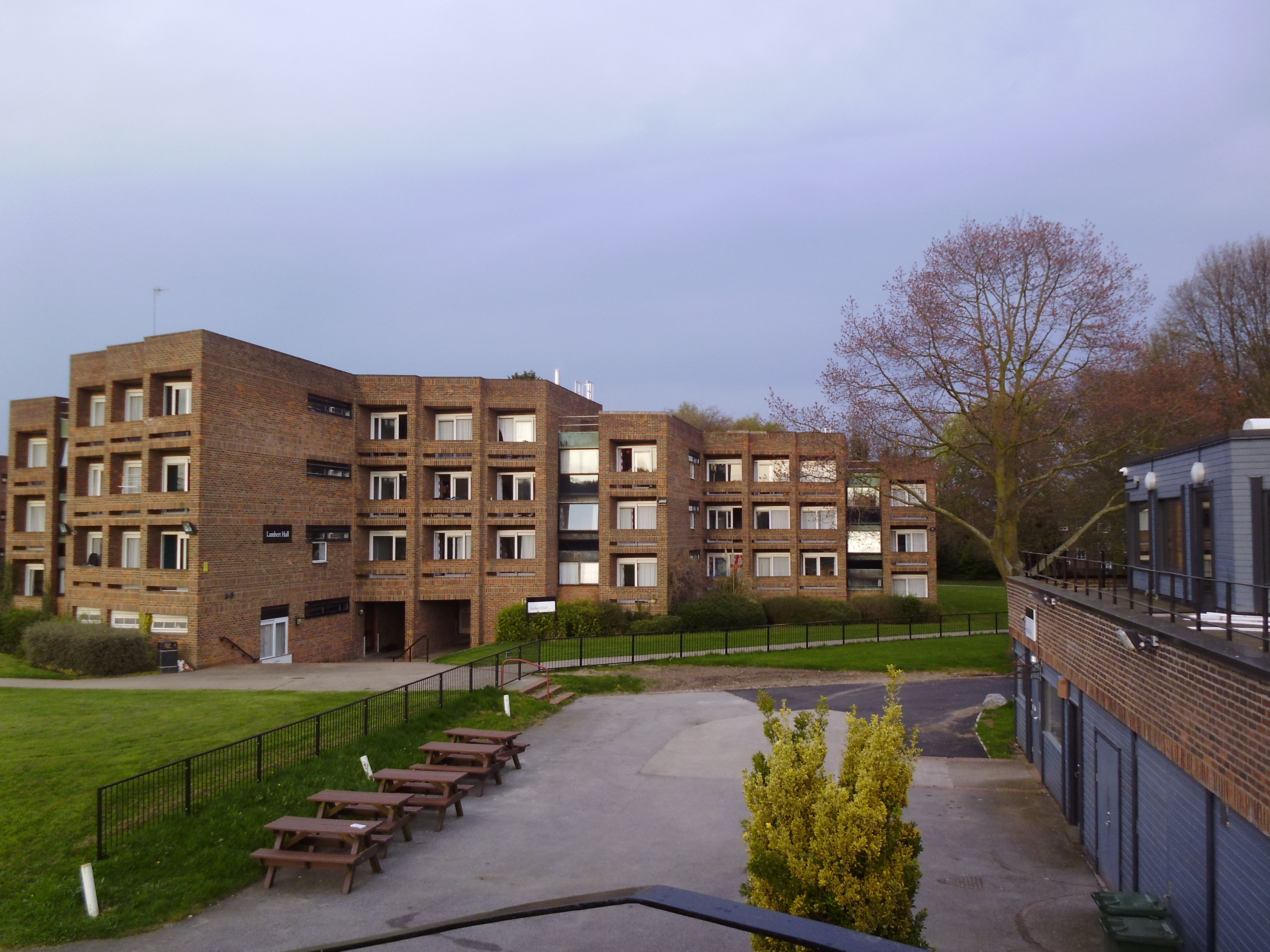 The windows and balconies on the western face of Lambert Hall, photographed from the top of the exterior staircase on the Lawns Centre.